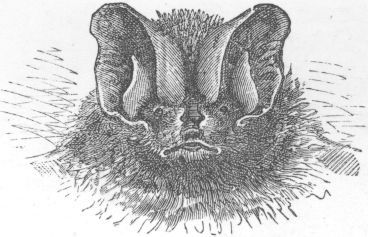 Bat face, Synotus barbastellus Syn. 'Barbastella barbastellus